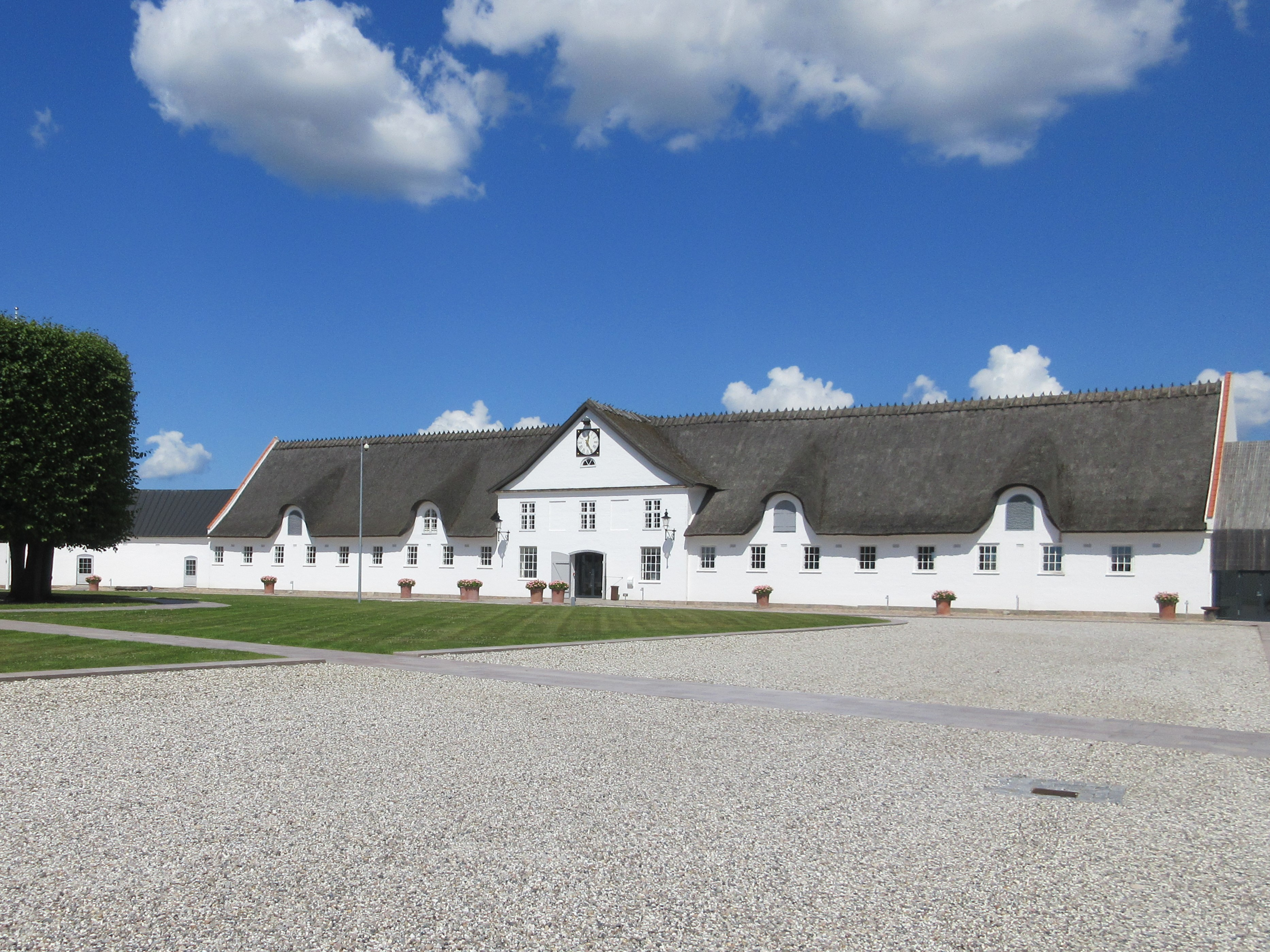 Favrholm Campus